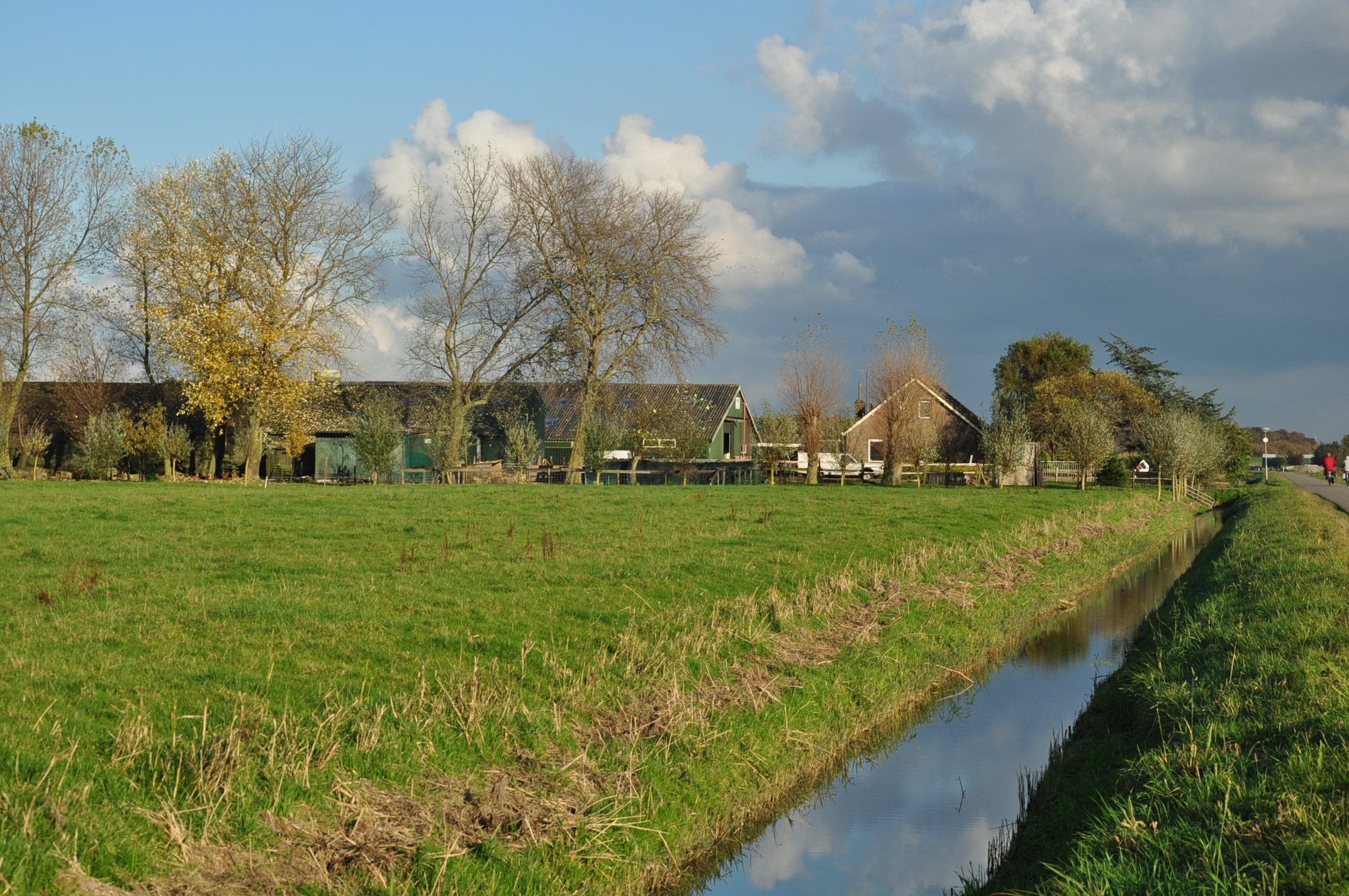 Farm in the Zwet Polder in Woubrugge (municipality Kaag en Braassem, Province South Holland, Netherlands).